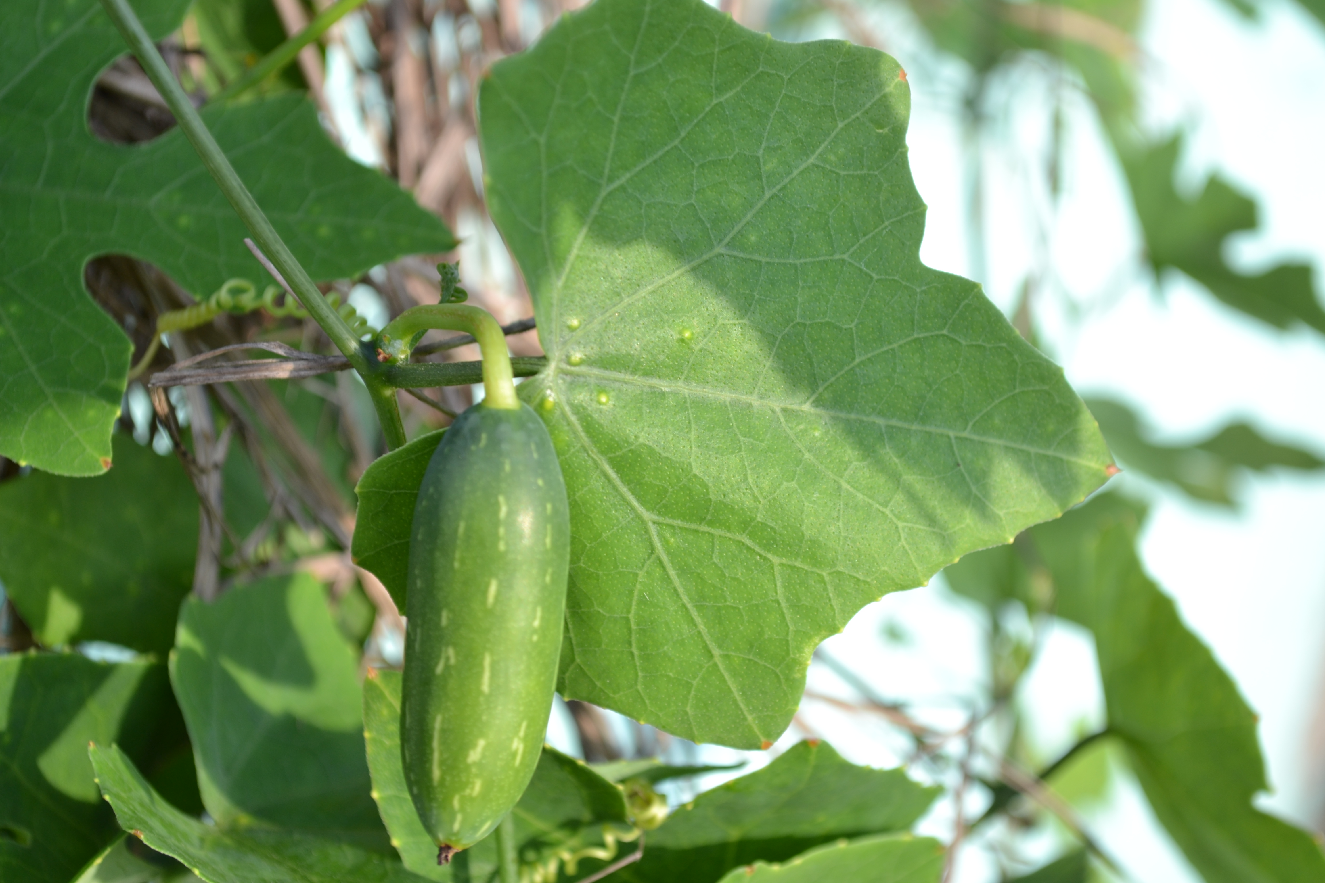 Young fruit ofCoccinia grandis